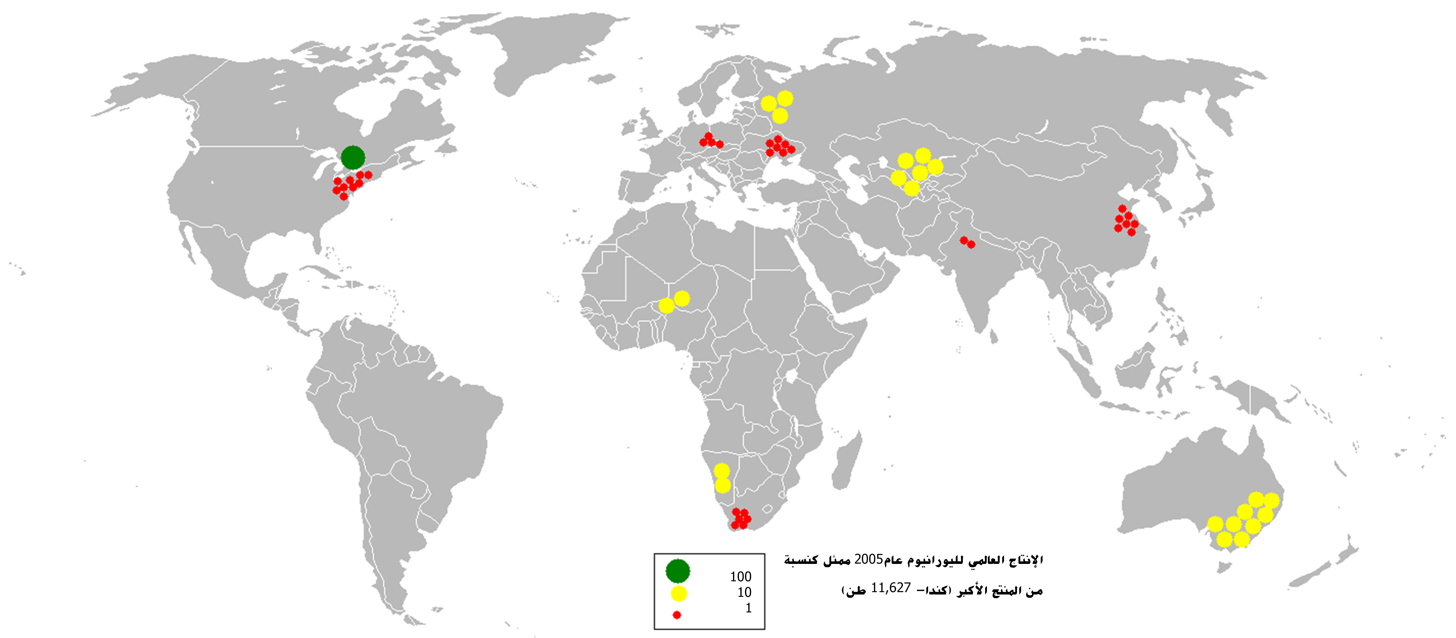 This bubble map shows the global distribution of uranium output in 2005 as a percentage of the top producer (Canada - 11,627 tonnes). This map is consistent with incomplete set of data too as long as the top producer is known. It resolves the accessibility issues faced by colour-coded maps that may not be properly rendered in old computer screens. Data was extracted on 29th May 2007. Source - Based on Image:BlankMap-World.png